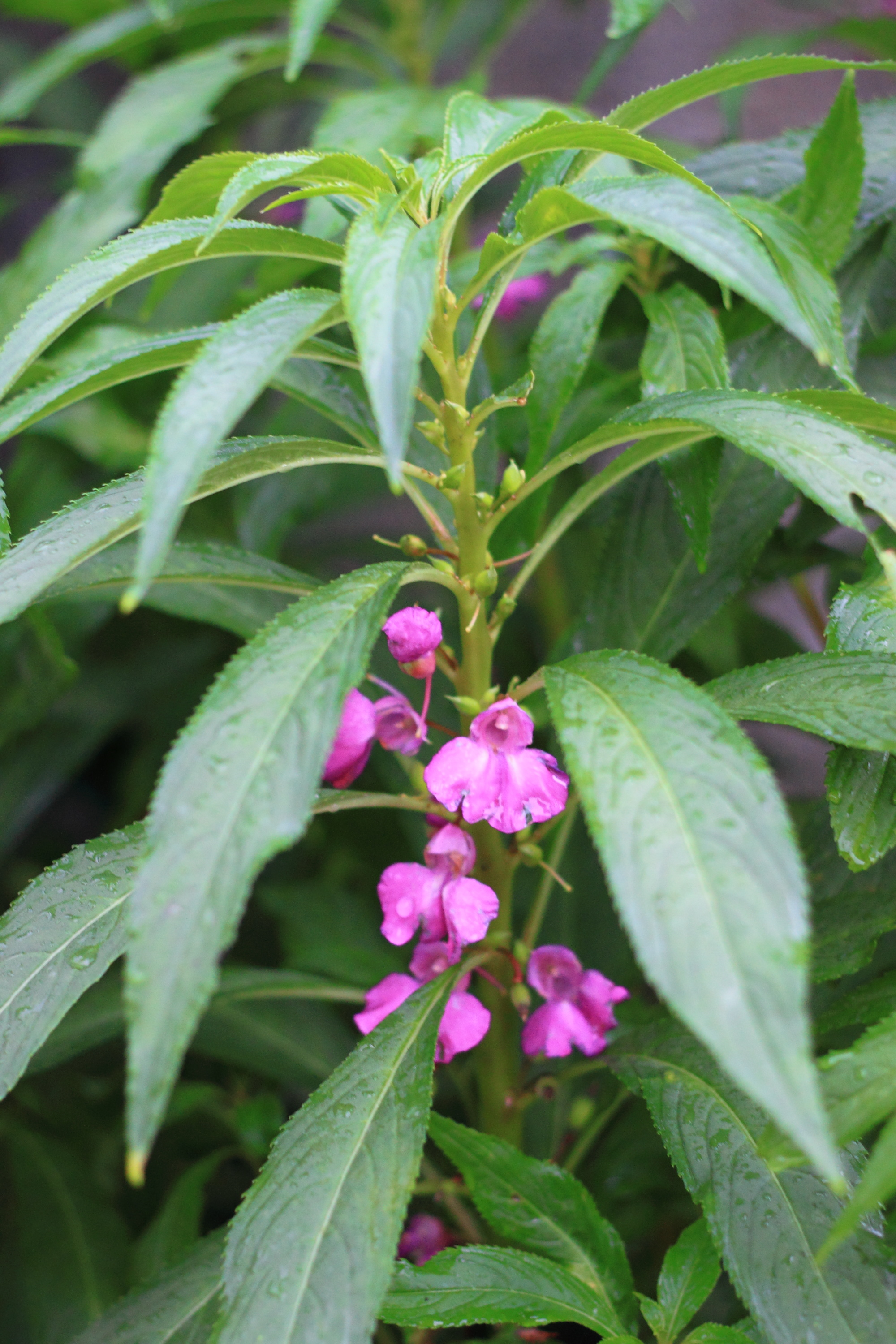 Impatiens balsamina